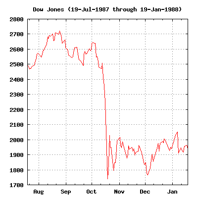 Dow Jones (19-Jul-1987 through 19-Jan-1988).